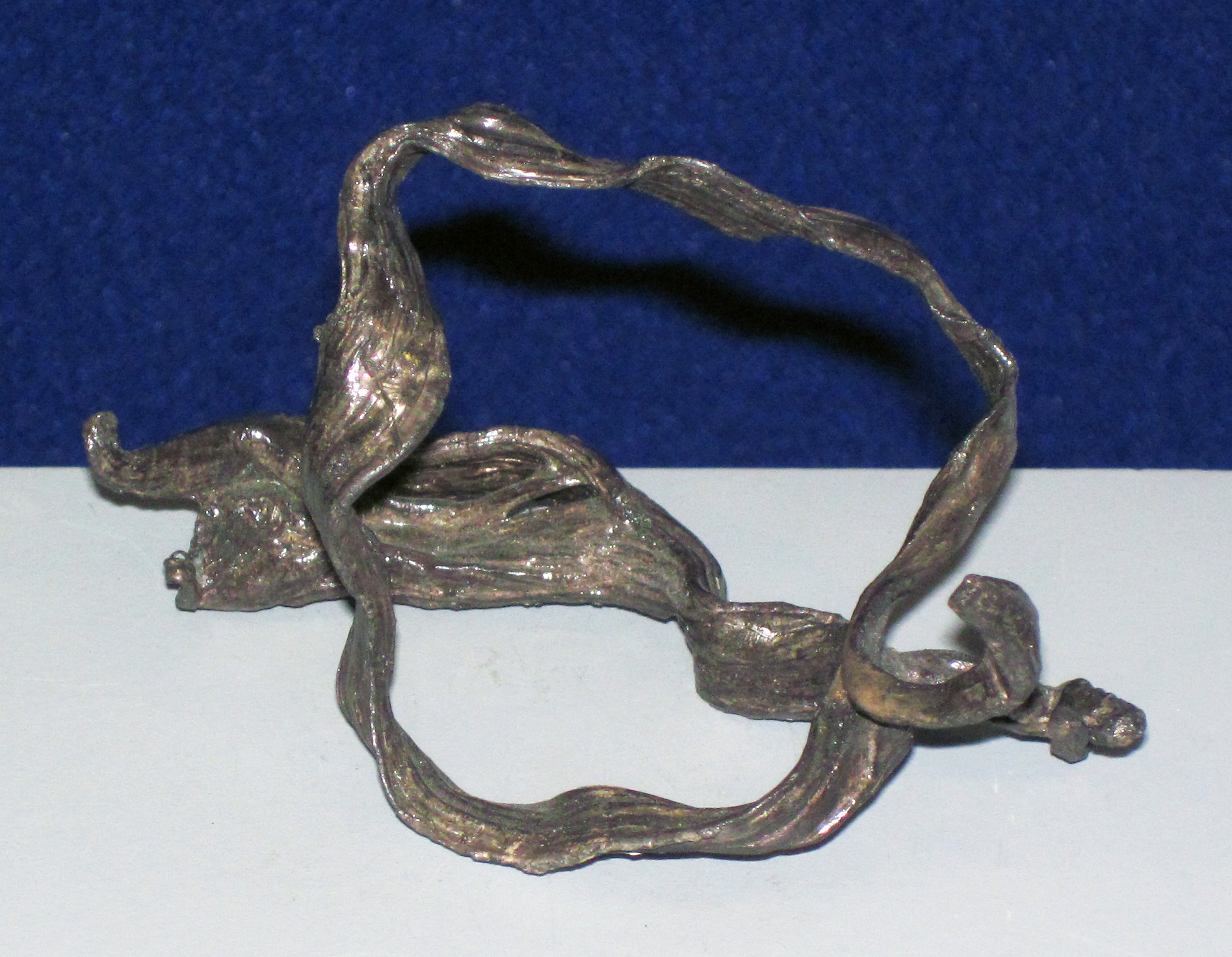 Native silver ("The Bear Trap") from Norway. (Cranbrook Institute of Science collection, Bloomfield Hills, Michigan, USA) A mineral is a naturally-occurring, solid, inorganic, crystalline substrance having a fairly definite chemical composition and having fairly definite physical properties. At its simplest, a mineral is a naturally-occurring solid chemical. Currently, there are over 4900 named and described minerals - about 200 of them are common and about 20 of them are very common. Mineral classification is based on anion chemistry. Major categories of minerals are: elements, sulfides, oxides, halides, carbonates, sulfates, phosphates, and silicates. Elements are fundamental substances of matter - matter that is composed of the same types of atoms. At present, 118 elements are known (four of them are still unnamed). Of these, 98 occur naturally on Earth (hydrogen to californium). Most of these occur in rocks & minerals, although some occur in very small, trace amounts. Only some elements occur in their native elemental state as minerals. To find a native element in nature, it must be relatively non-reactive and there must be some concentration process. Metallic, semimetallic (metalloid), and nonmetallic elements are known in their native state as minerals. Silver is part of the gold-group of metallic elements. Silver is a precious metal, but is far less valuable than gold or platinum. Silver usually occurs as a silver sulfide mineral, but it also occurs in nature in its native state, often in the form of twisted wires. Silver is moderately soft and has a silvery-white color on fresh surfaces that tarnishes to darker colors. Elemental silver in nature is often found alloyed with other metals. Naturally alloyed gold-silver is called electrum. Locality: Kongsberg, Norway